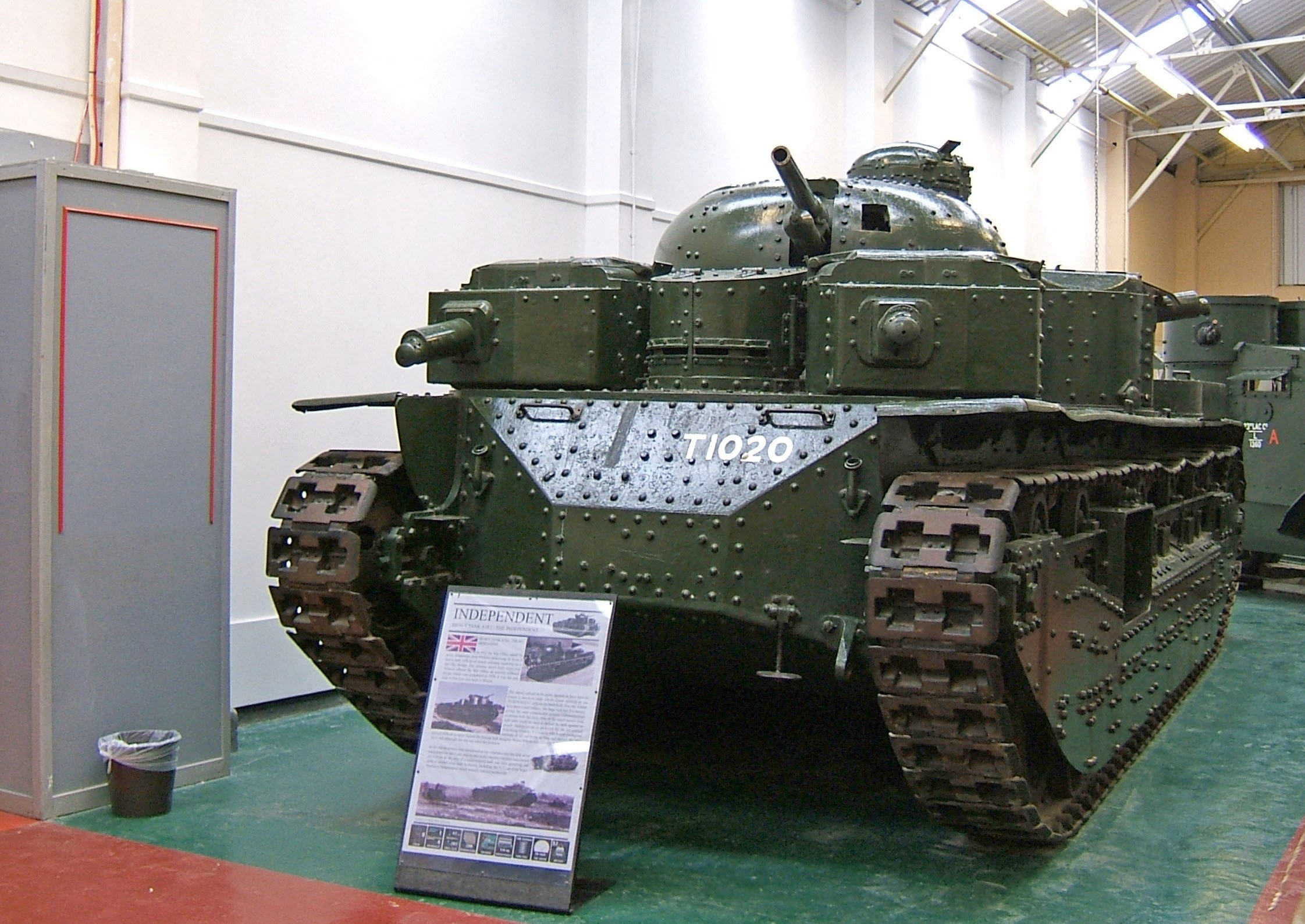 Vickers Independent At Bovington tank museum, Dorset. Inter-war tank design with 5 turrets. One of the four small turrets which surround the main one had a gun which could elevate to point at aircraft. Although this didn't get produced it did influence later tanks.